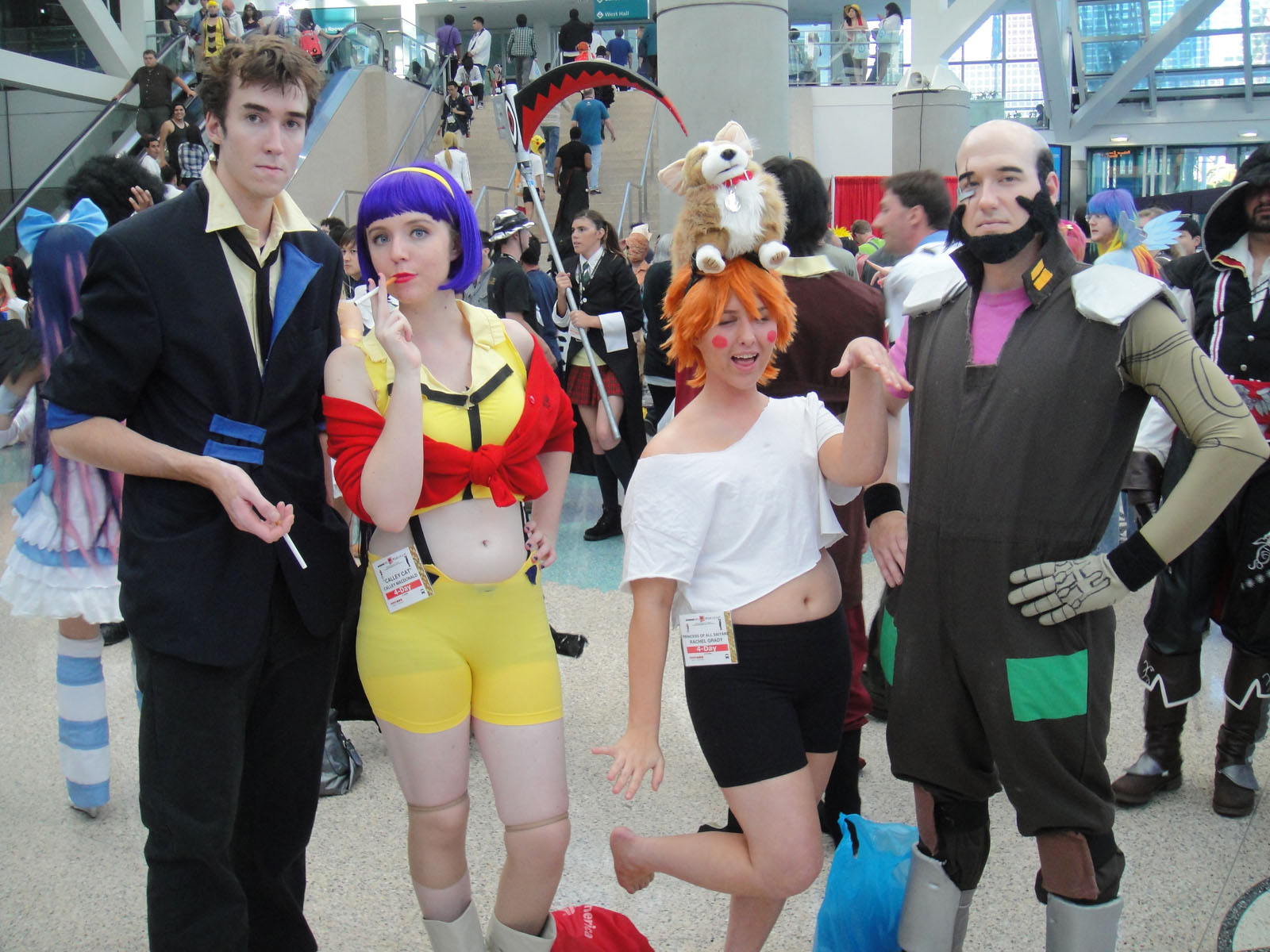 Cowboy Beebop characters at Anime Expo 2011